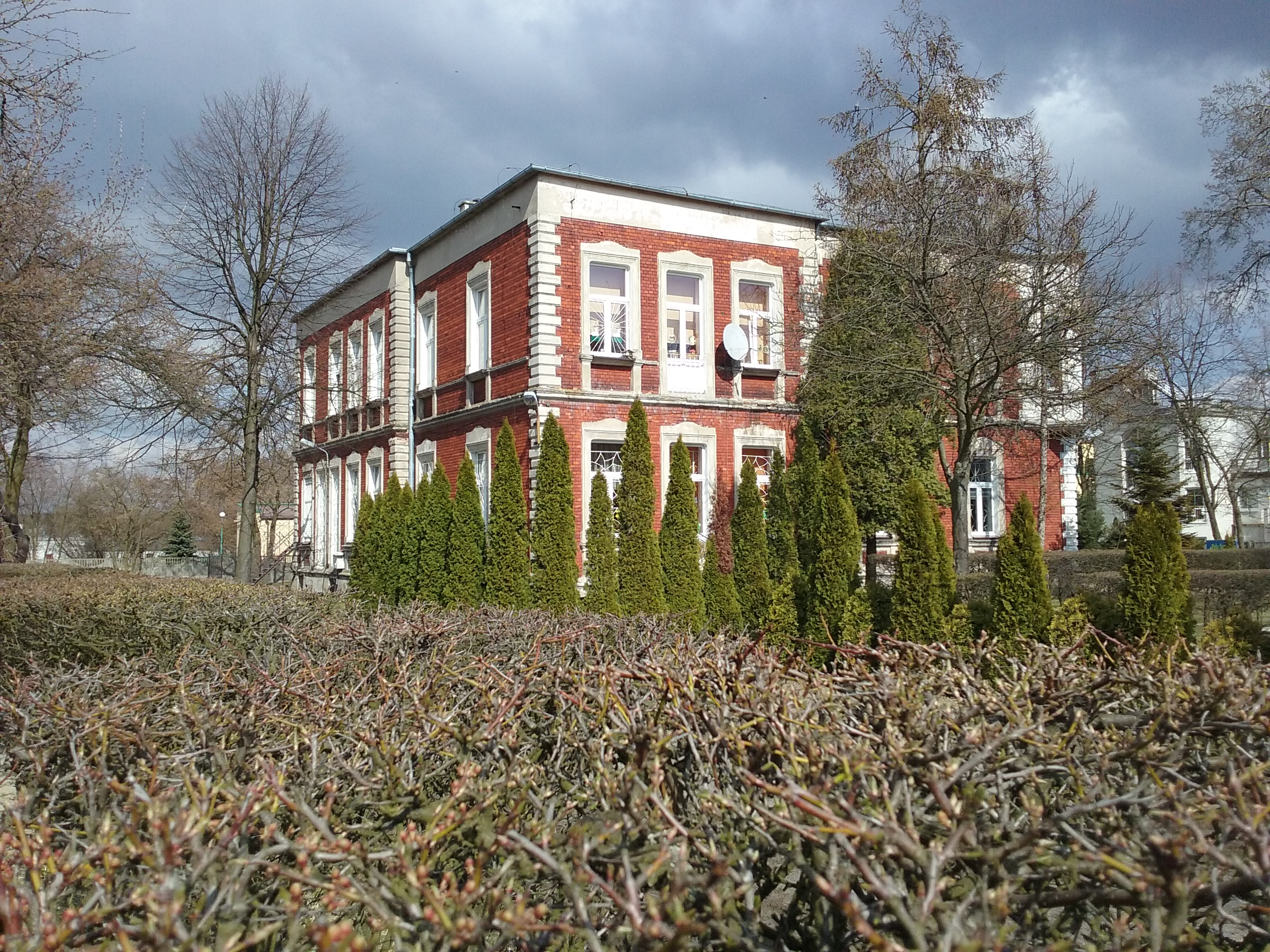 Villa at Warszawska Street 103 A in Tomaszów Mazowiecki